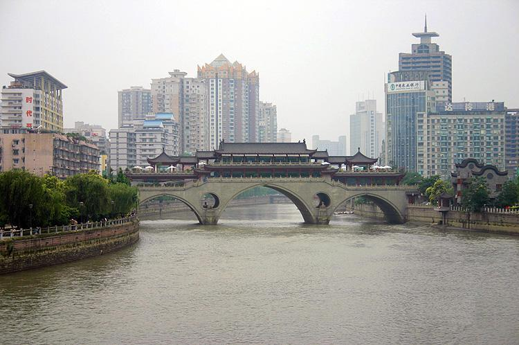 Jingjiang River and Anshun Bridge in Chengdu, China.